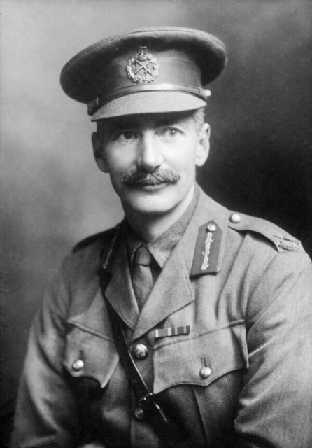 Studio portrait of Brigadier General Sir John Gellibrand DSO, QSA (later KCB) (1972-1945). Gellibrand joined the 1st Australian Division staff in 1914, was wounded at Gallipoli and commanded successively the 12th Battalion, the 6th Brigade, the 12th Brigade and the 3rd Division. After the First World war he established Remembrance Clubs in Tasmania and helped launch the Legacy movement in Melbourne.